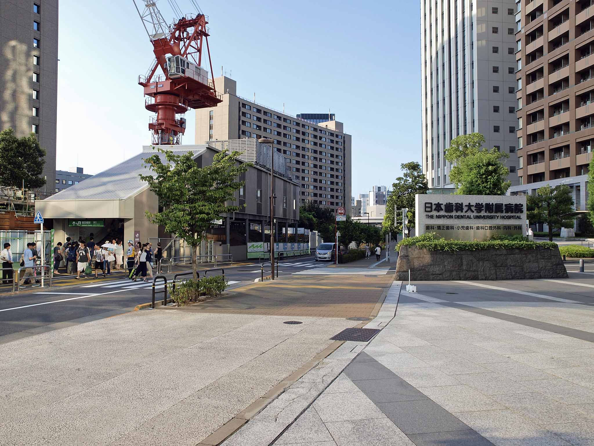 The temporary west entrance to Iidabashi Station in use since August 2016